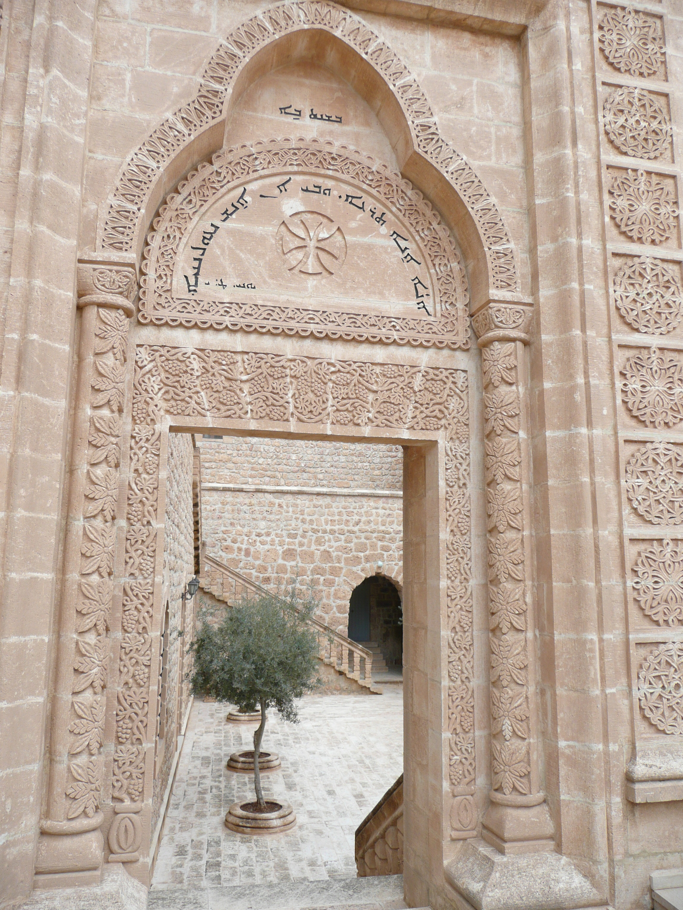 Photographs from Deyrulumur (Mor Gabriel Monastery) , Midyat, Turkey.